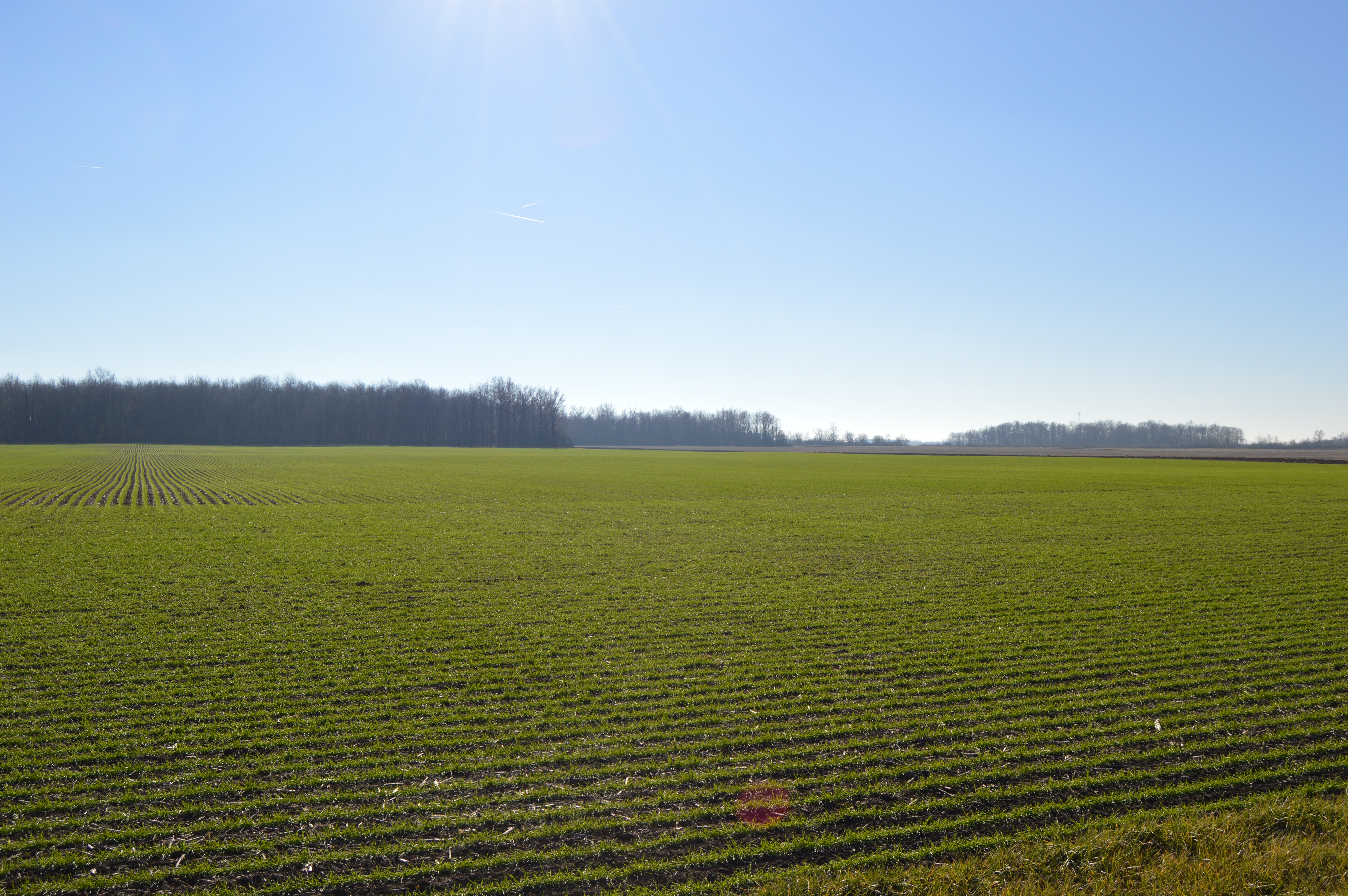 Wheat fields on the southern side of Willshire Ohio City Road west of the Dull Robinson Road intersection in western Liberty Township, Van Wert County, Ohio, United States.